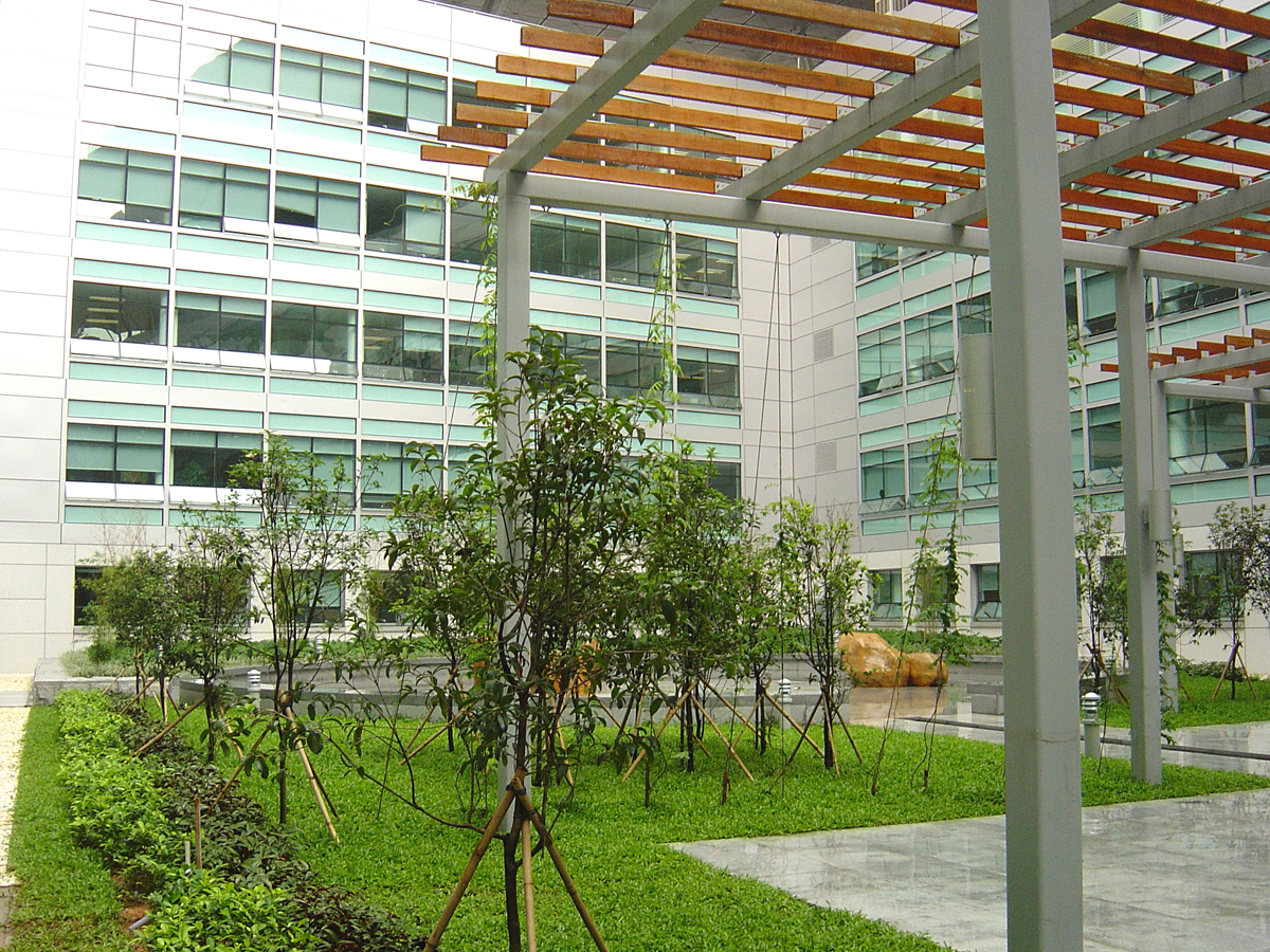 Detail of Shenzhen Civic Center